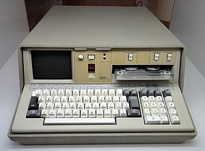 ибм 5100